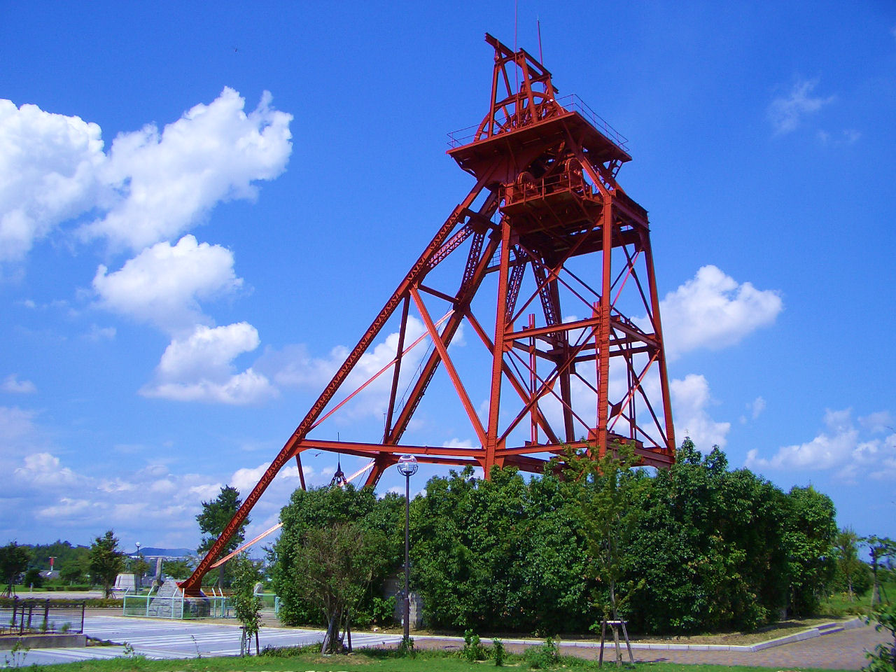 Ita Winding Tower (Japan's registered tangible cultural property), former Mitsui Tagawa Coal Mine, Tagawa city, Fukuoka, Japan.